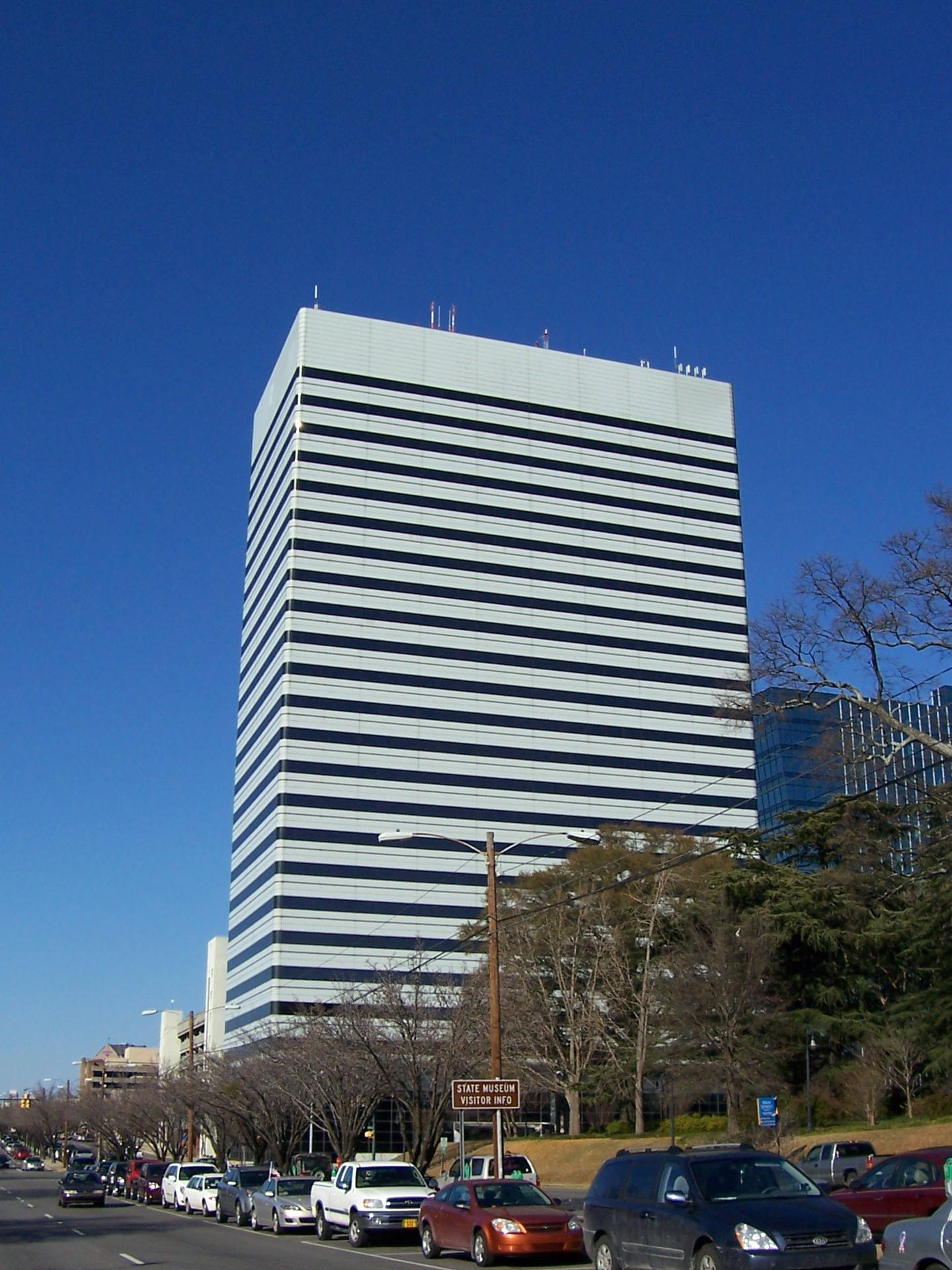 The Capitol Center building, Columbia, South Carolina. Slightly cropped. It is one of the tallest buildings in the state with 1,200 to 1,300 people inside everyday and with about 300 to 500 offices and 26 floors.